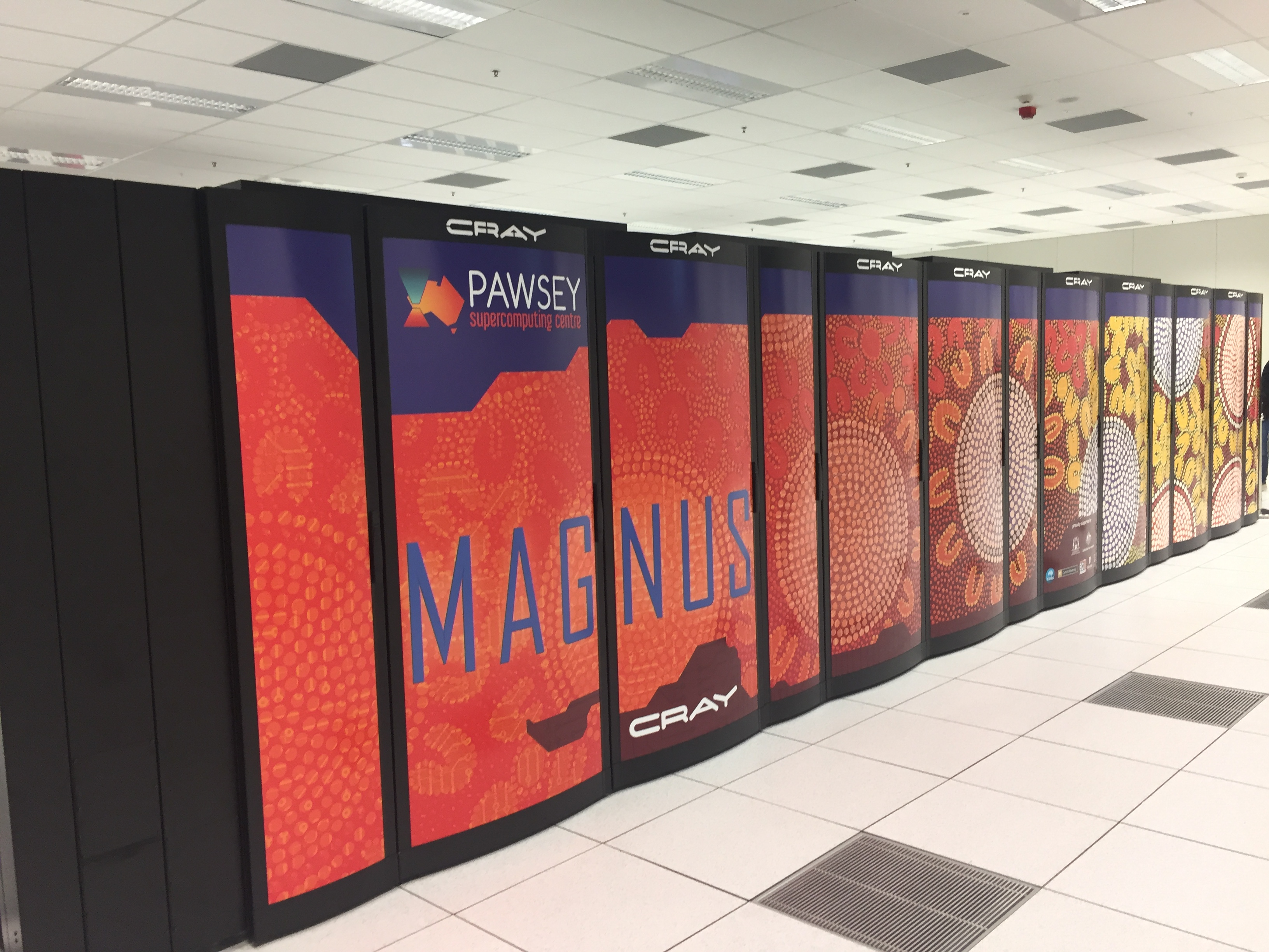 Cray XC40 supercomputer "Magnus" at the Pawsey Supercomputing Centre in Kensington, Perth, Australia.